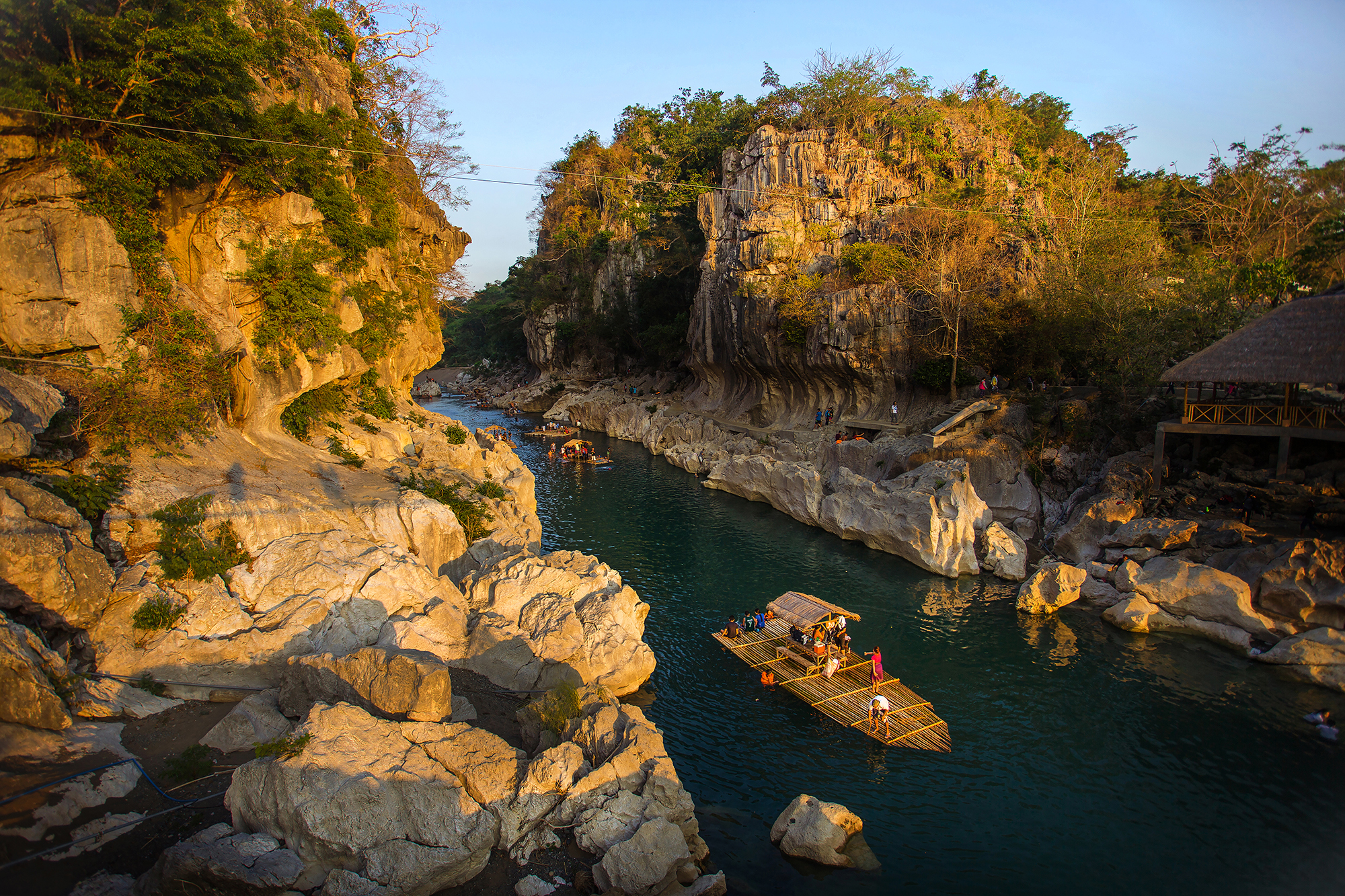 This photo was taken at Minalungao National Park in General Tinio, Nueva Ecija Philippines